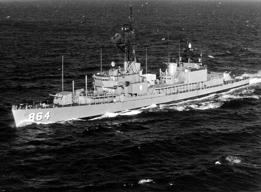 The U.S. Navy destroyer USS Harold J. Ellison (DD-864) underway in Chesapeake Bay on 17 August 1976. Photographer